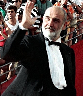 1988 Academy Awards. Scanned from the original 35MM film negative.